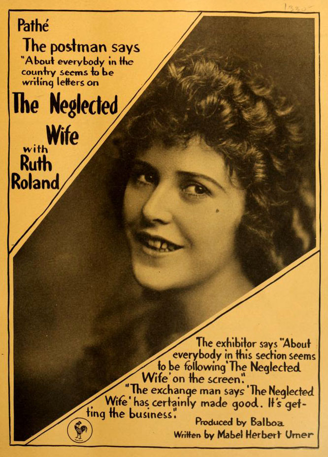 Advertisement in Moving Picture World for the American film The Neglected Wife (1917).